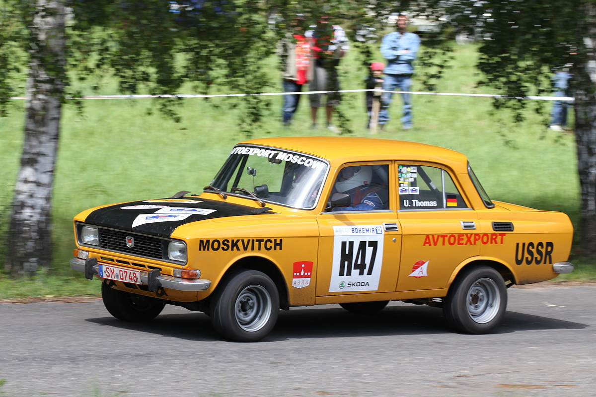 H47 Uwe Thomas - Robin Raab (DEU) - Moskvitch 2140 / group 2 / 1976